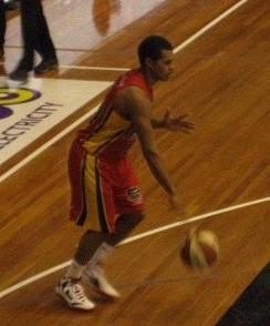 Patrick Mills playing for the Melbourne Tigers